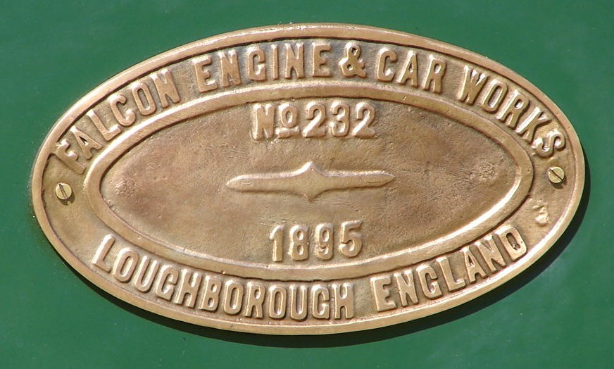 Beira Railway BR7 (4-4-0), SAR Class NG6, Falcon Engine works plateLocation: Sandstone Estates, Ficksburg, Free State